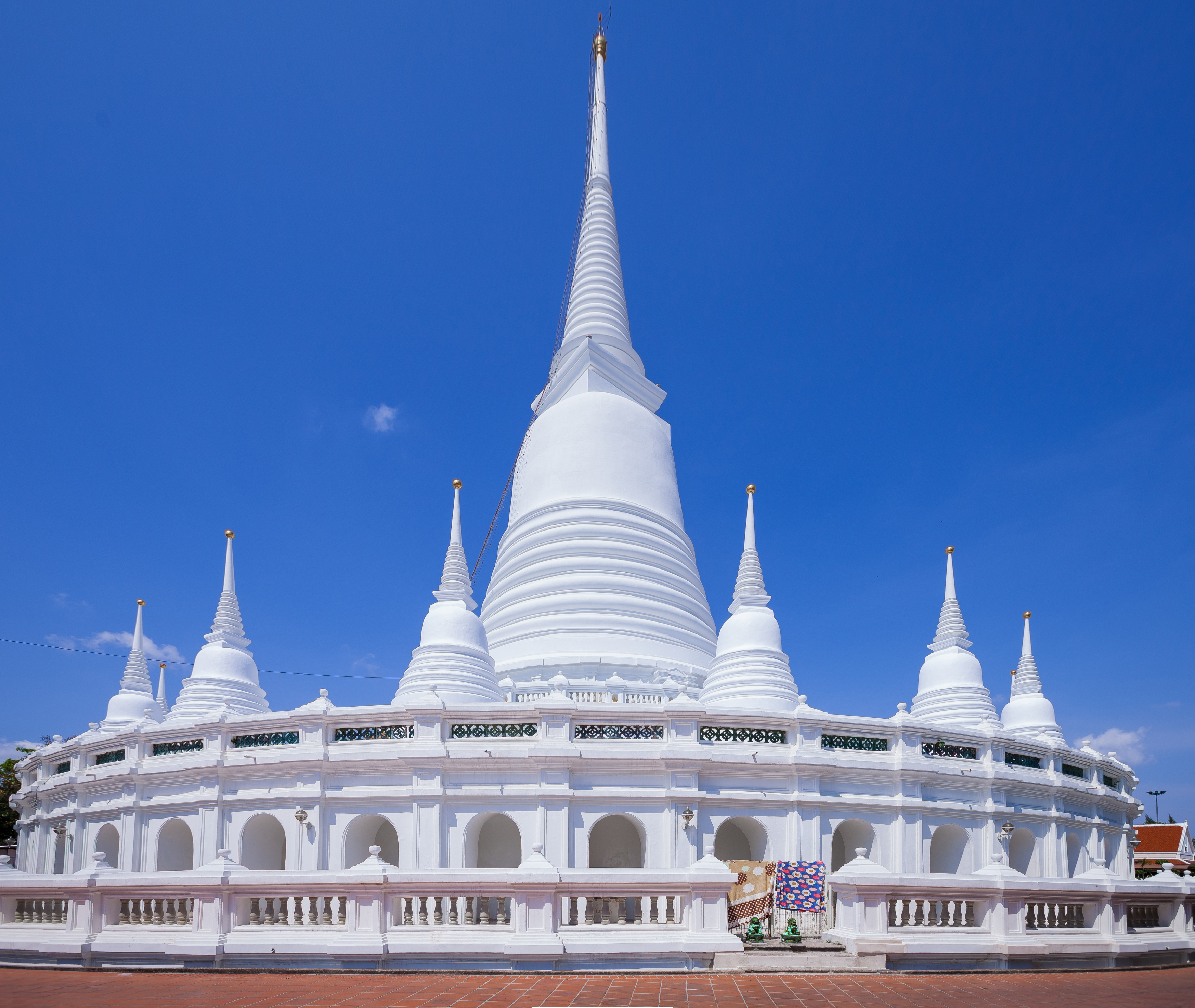 Chedi of Wat Prayurawongsawat at Wat Prayurawongsawat, Thonburi District, Bangkok.